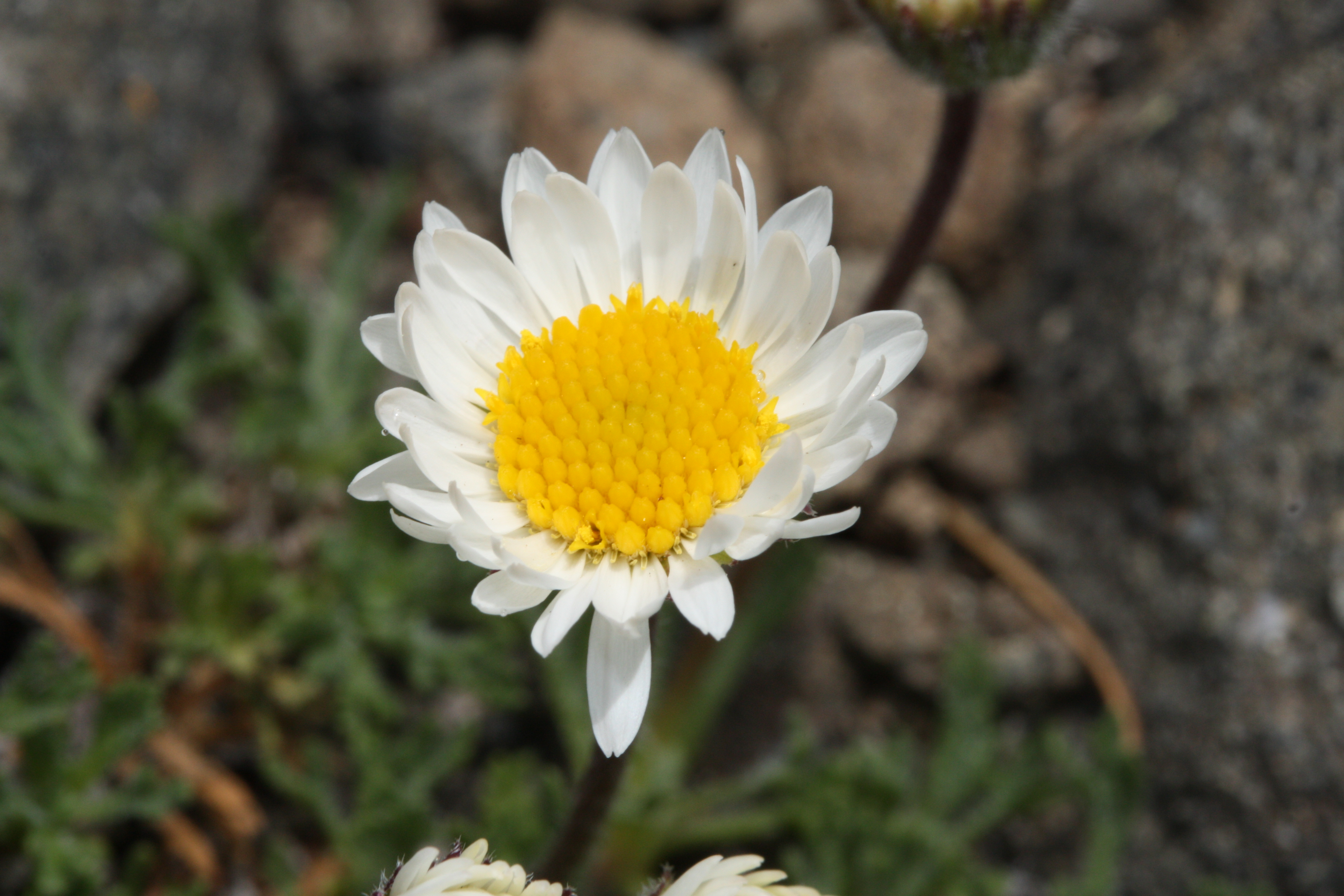 Cutleaf Daisy, Trifid Mountain Fleabane, with 45 ray flowers